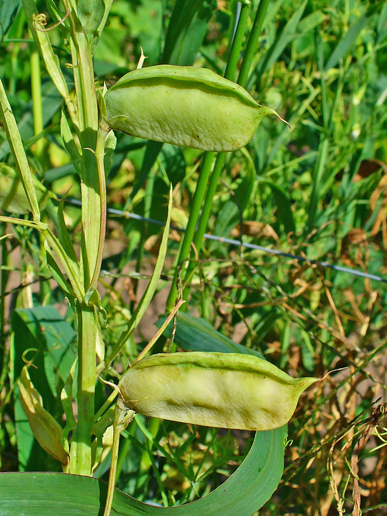 Lathyrus sativus, Fabaceae, Grass Pea, Blue Sweet Pea, Chickling Vetch, Indian Pea, Indian Vetch, White Vetch, fruits. The ripe seeds are used in homeopathy as remedy: Lathyrus sativus (Lath.)